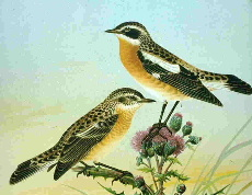 Drawing of Whinchats